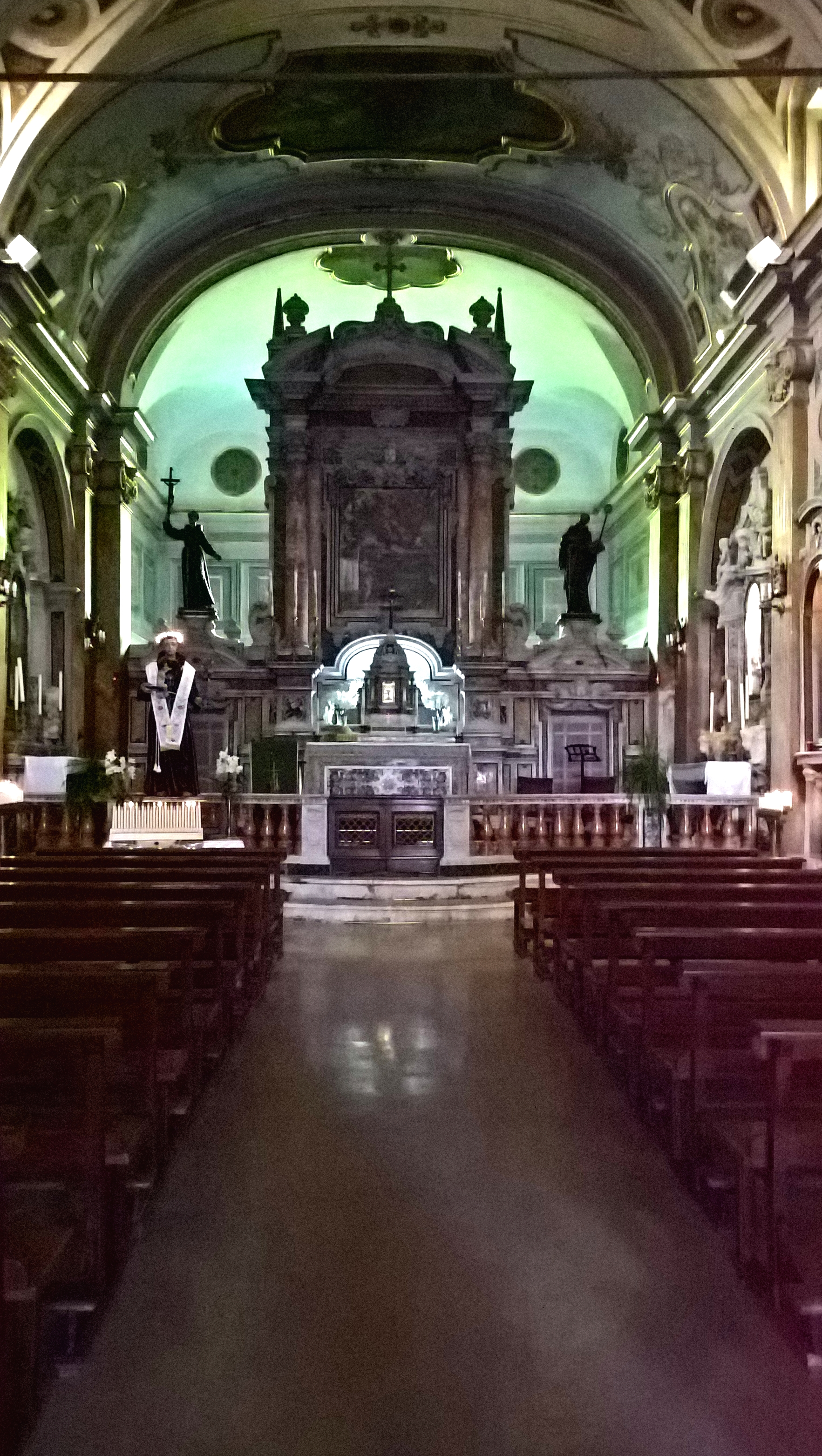 Chiesa di Gesù e Maria - Interior view, high altar